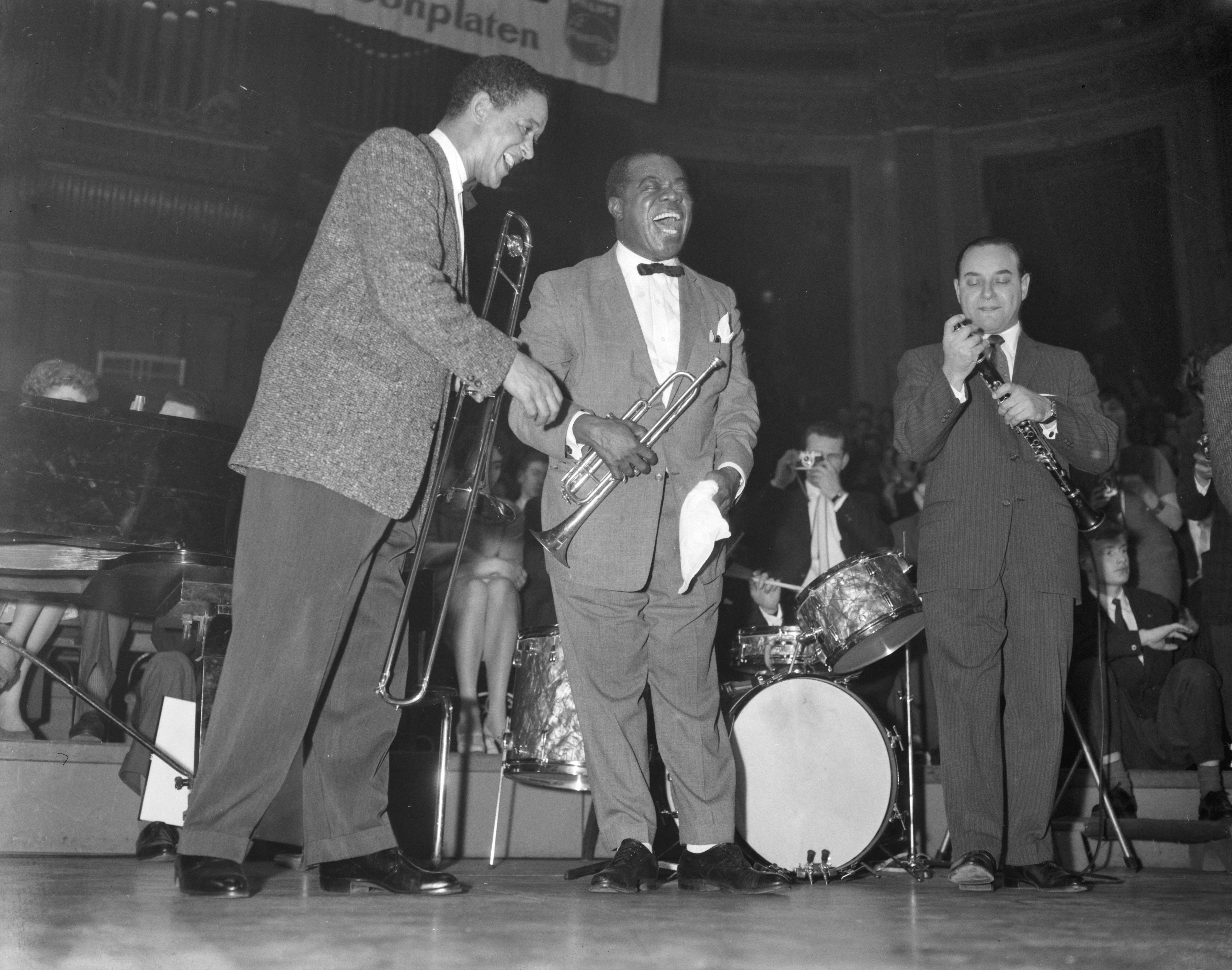 Louis Armstrong during a night concert in the Concertgebouw, Amsterdam (NL), 7 Febr. 1959